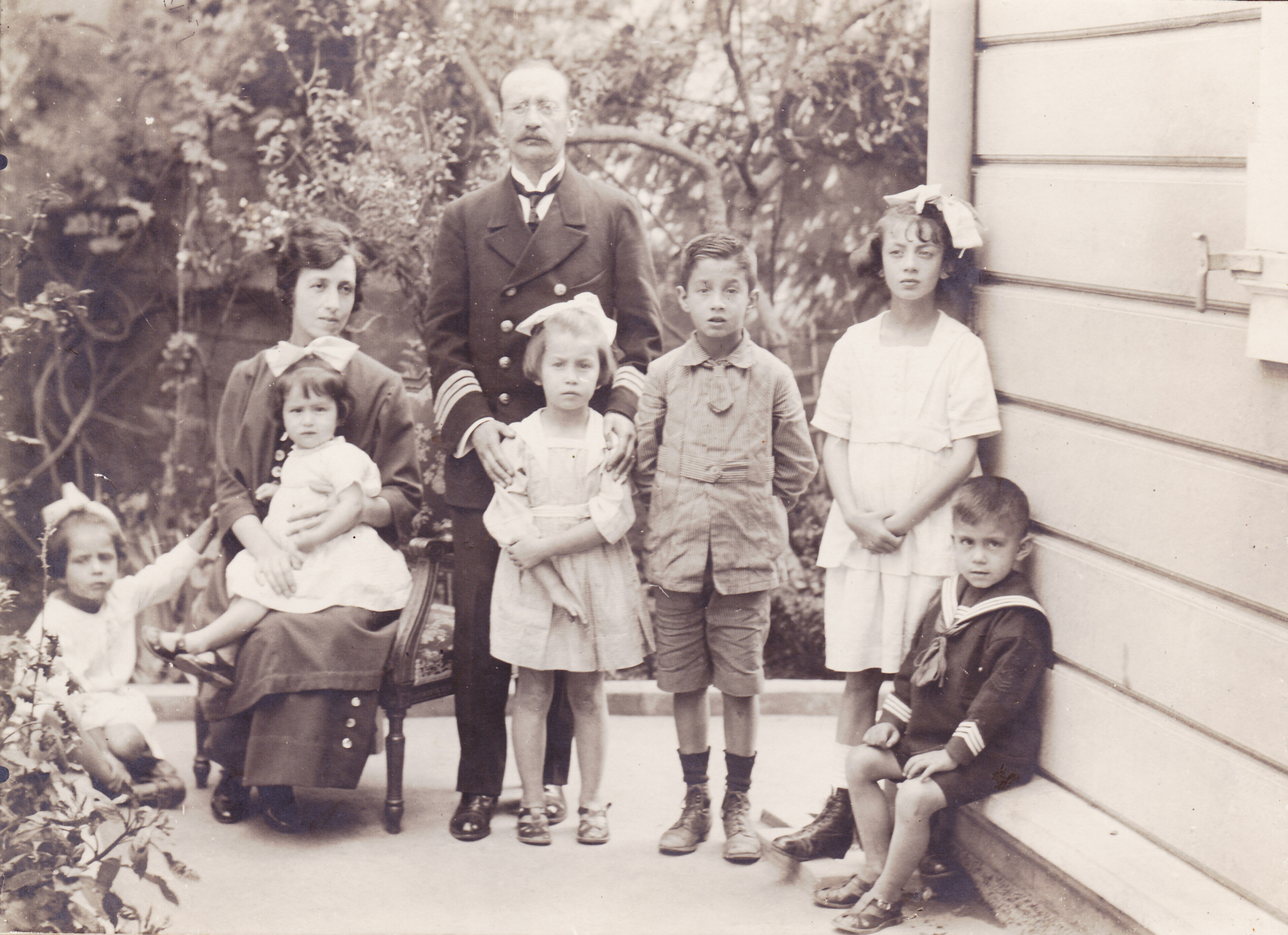 Felipe Wiegand with his wife María Elena Lira Orrego and his sons.